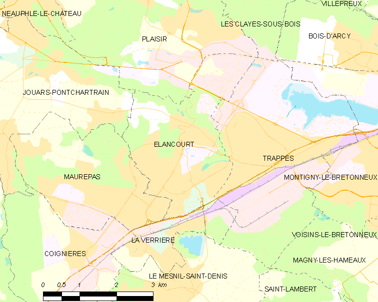 Map of French municipality Élancourt